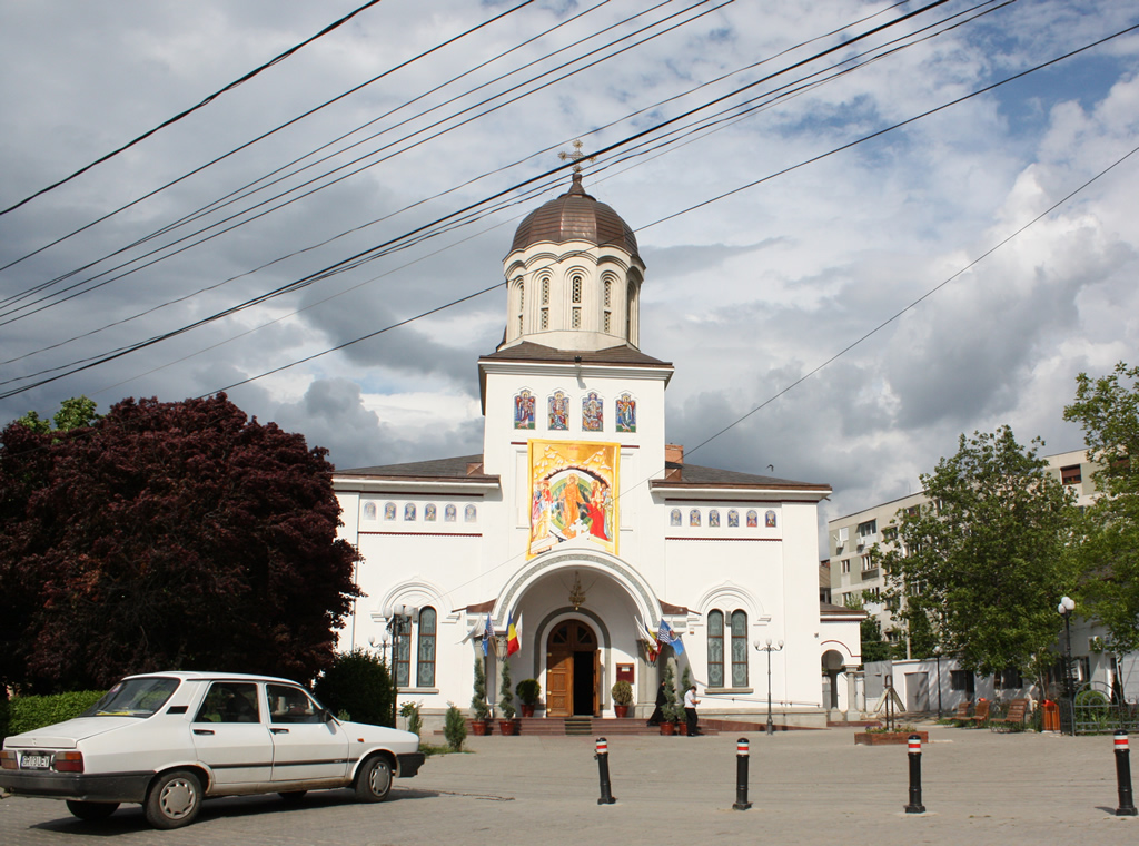 Church in Giurgiu